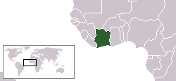 Location map for the Côte d'Ivoire